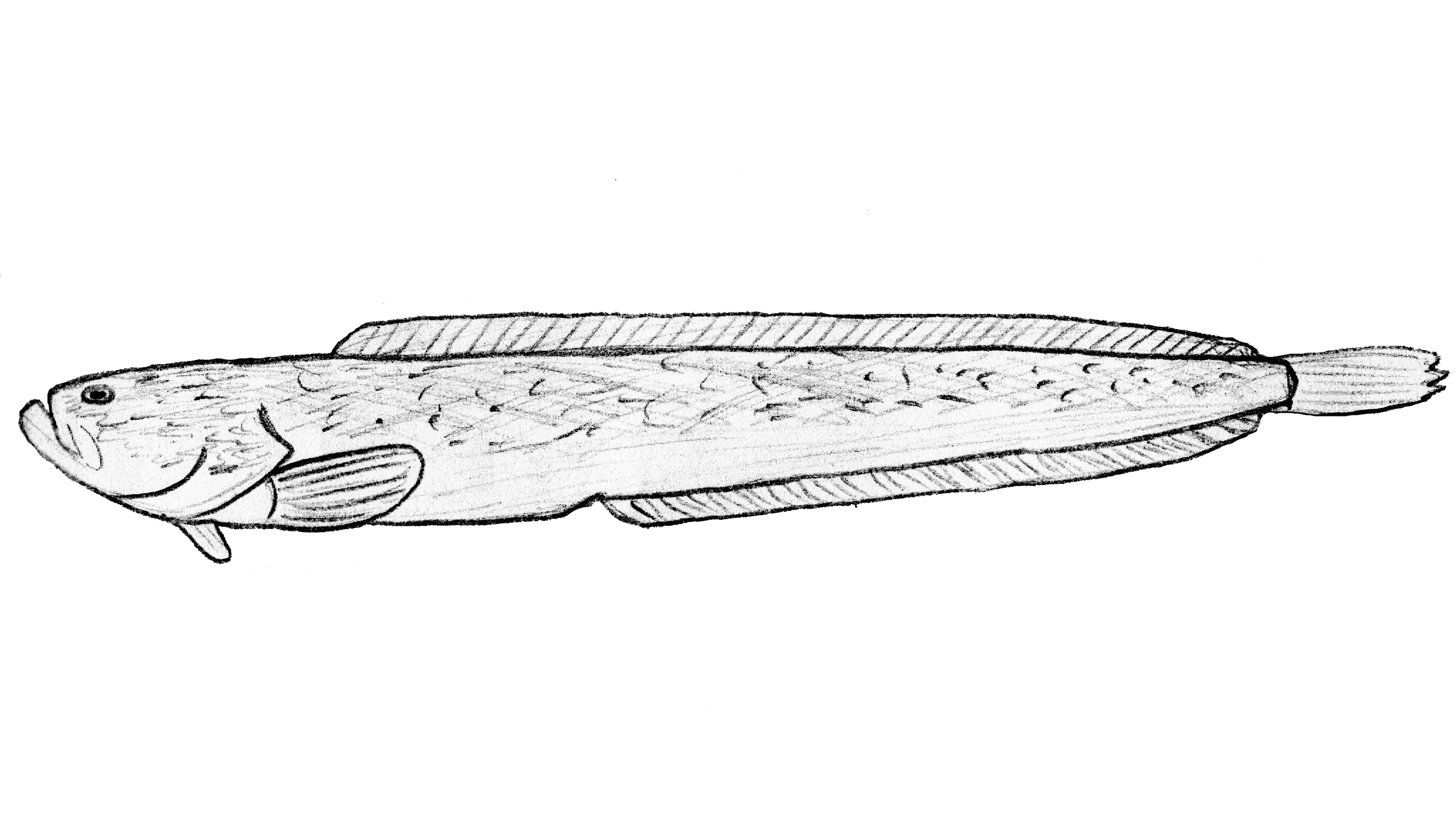 Stichaeus grigorjewi